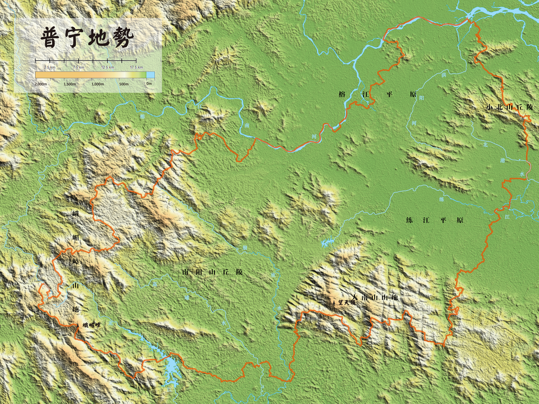 Puning Topography created with the Elevation Data fromShuttle Radar Topography Mission (STRM).